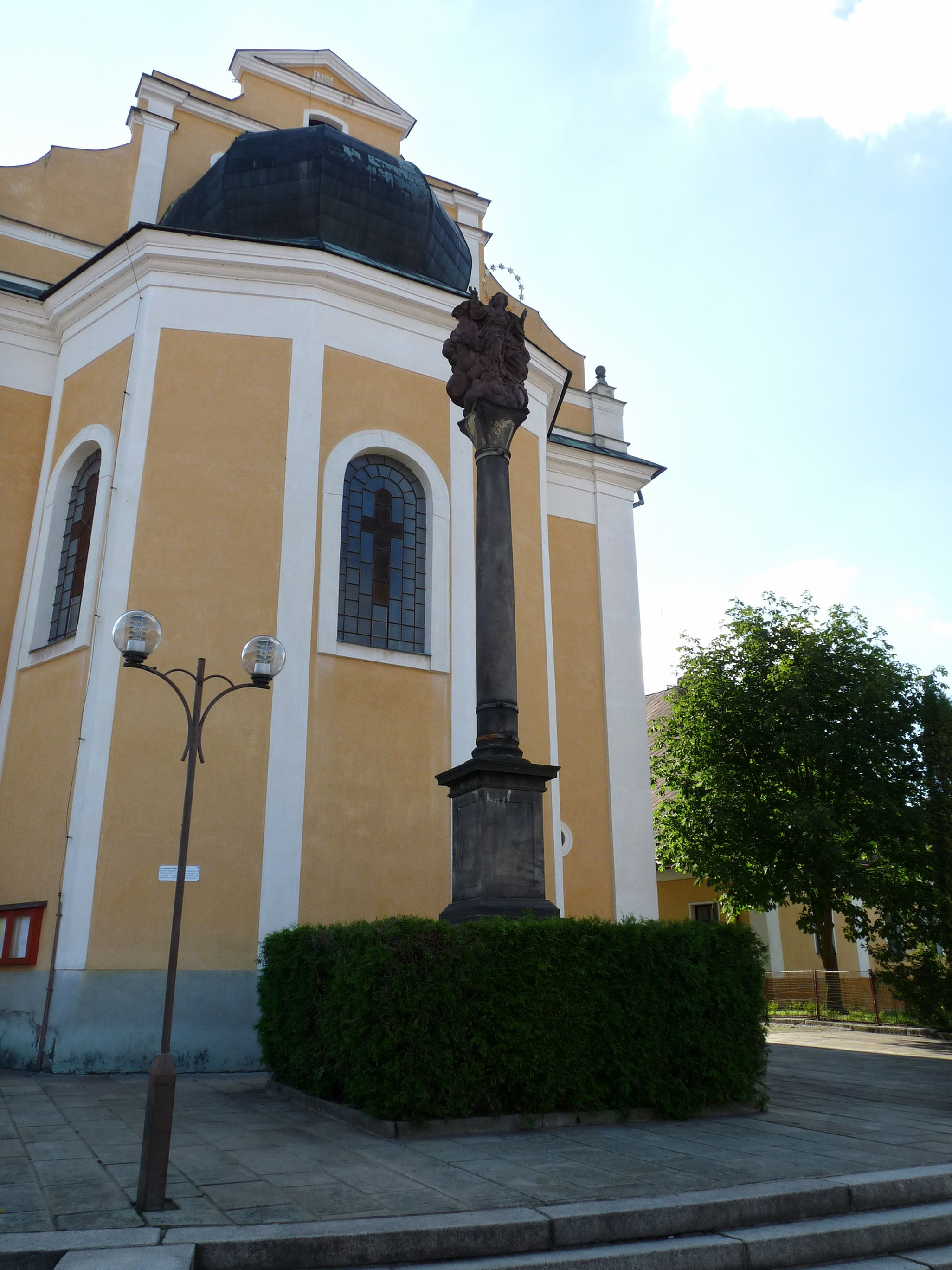 Marian column in the town of Úpice, Trutnov District, Czech Republic